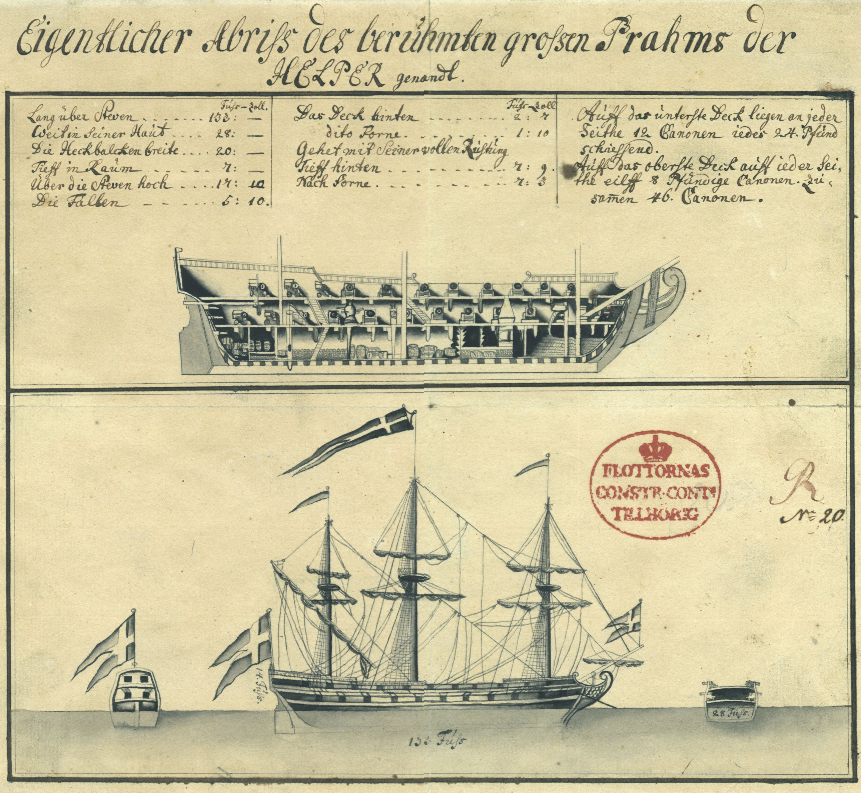 Drawing of the danish early 18th-century gunbarge Helper.